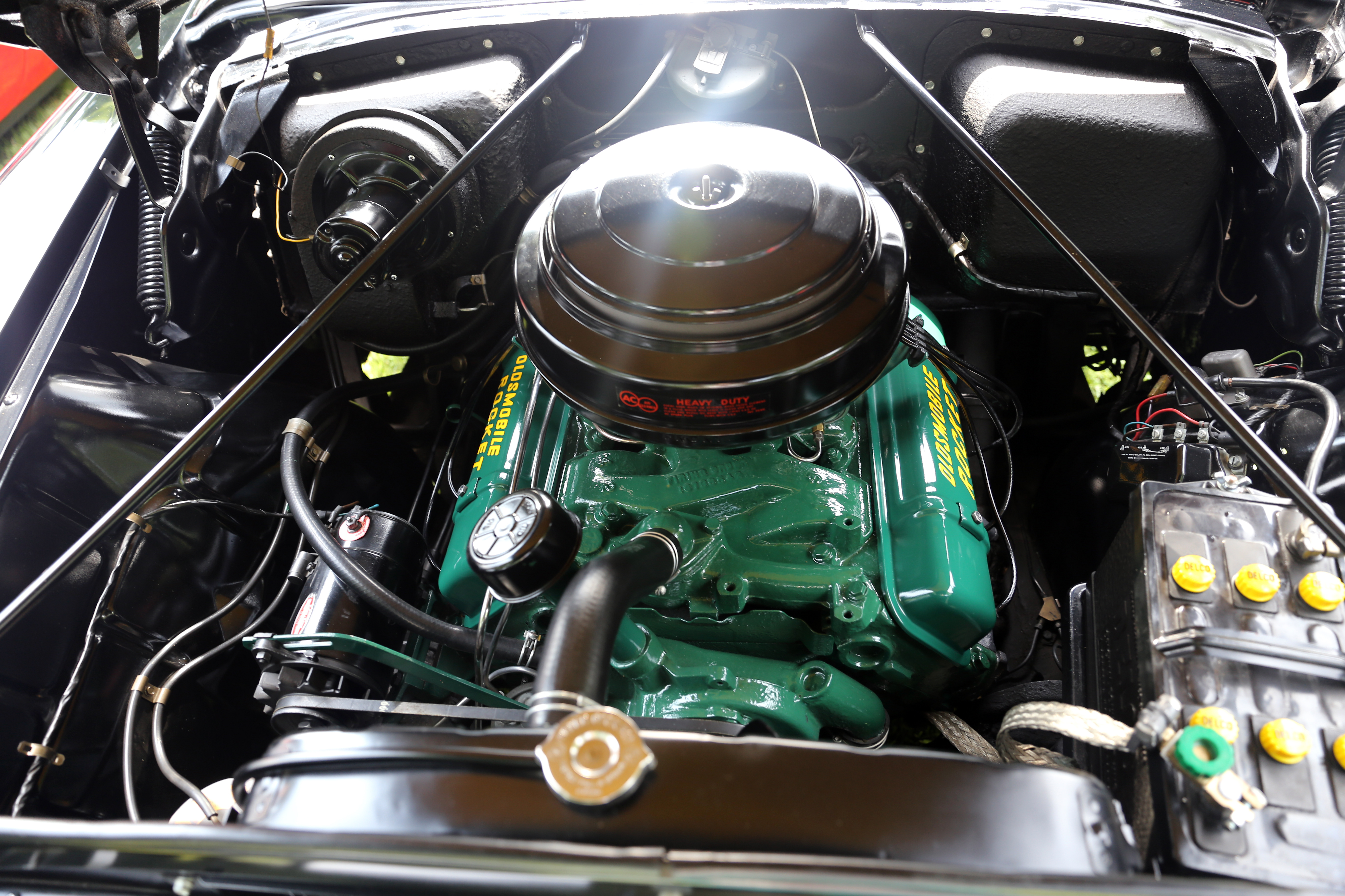 A 1954-1956 Oldsmobile Rocket V8 engine, 324ci.